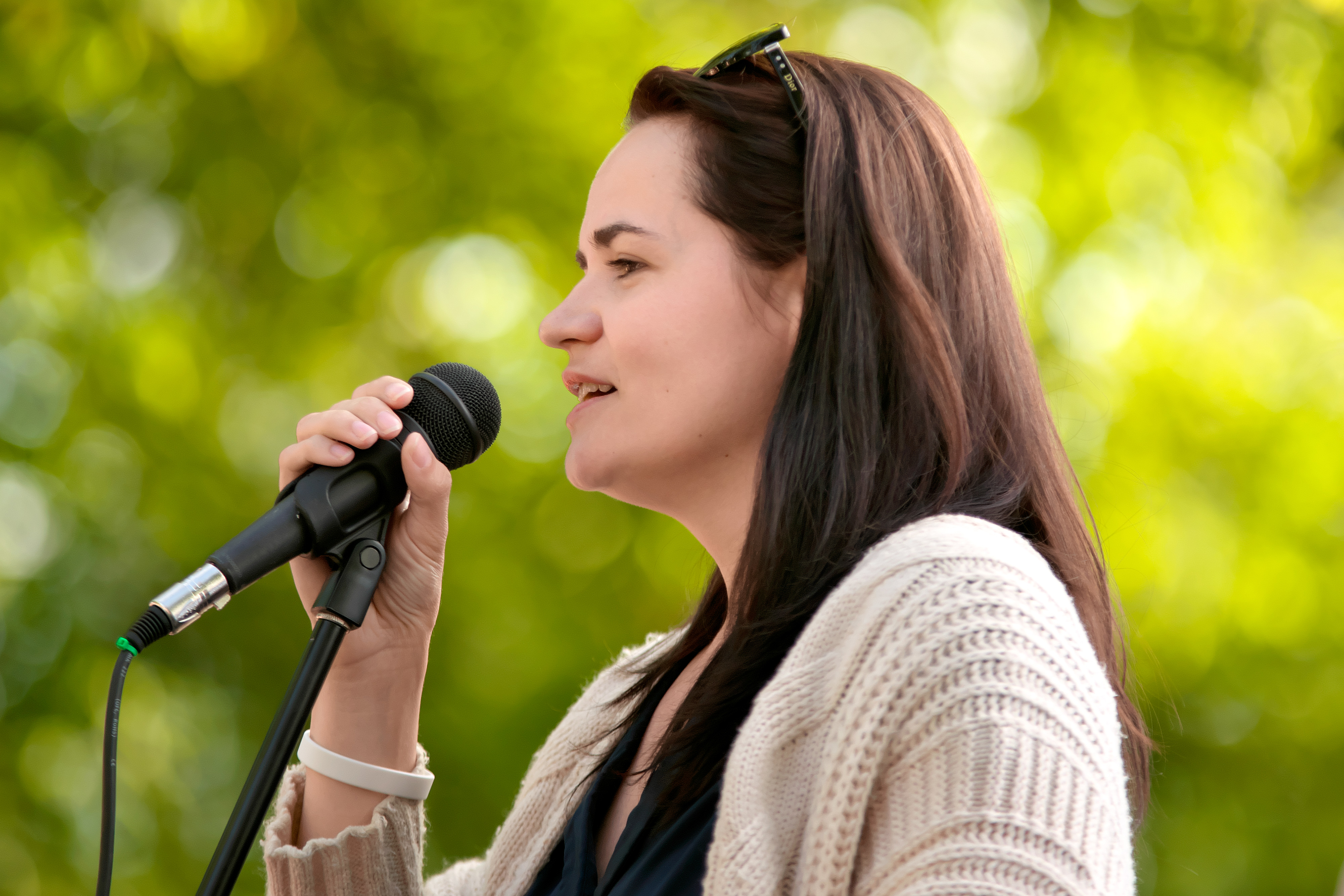 Candidate in the 2020 Belarusian presidential election Sviatlana Tsikhanouskaya